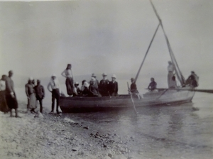 On the Sea of Galilee, Tiberias, 1891. From original silver print in book titled: "A Month in Palestine and Syria, April 1891," (author unknown). Original 19th century book in the possession of Kimberly Blaker, New Boston Fine and Rare Books.